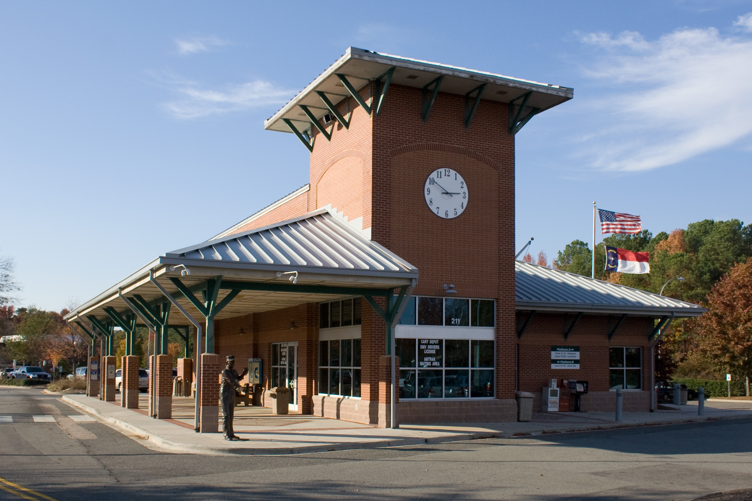 Amtrak station in Cary, NC. Also serves as a DMV drivers license office.